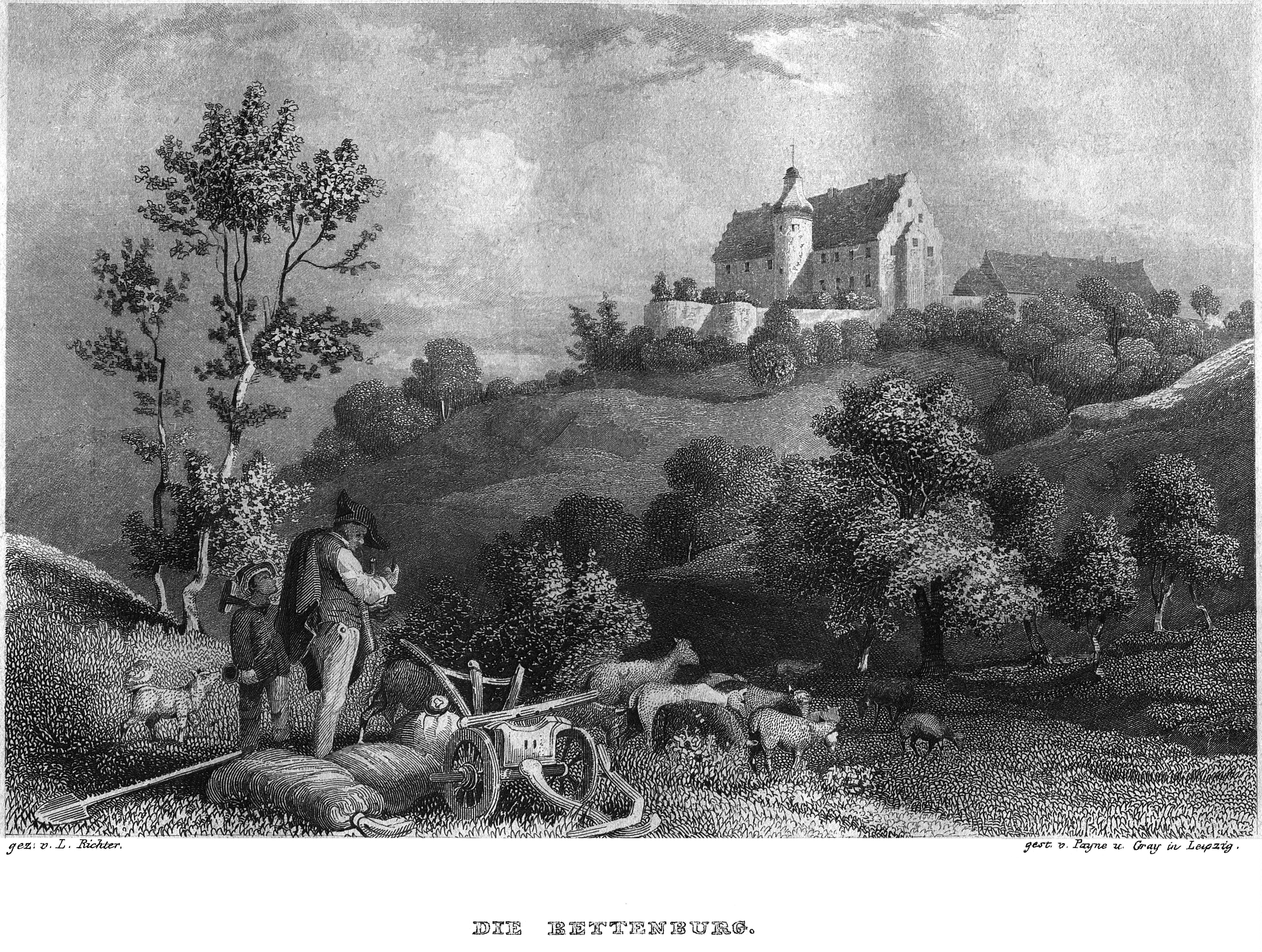 Bettenburg engraving by Richter c. 1850, digitally cleaned up background around main image